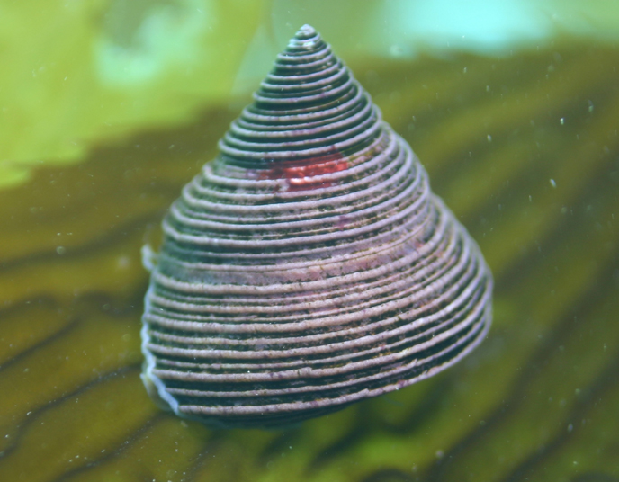 A channeled top snail Calliostoma canaliculatum on a blade of giant kelp.